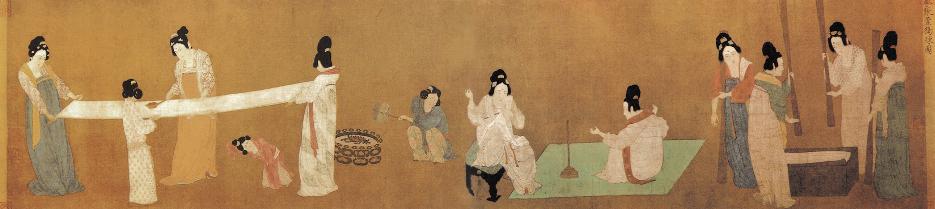 Song dynasty painting attributed to Emperor Huizong in the style of Tang dynasty painter Zhang Xuan. The women are ironing, sewing, and pounding the silk.